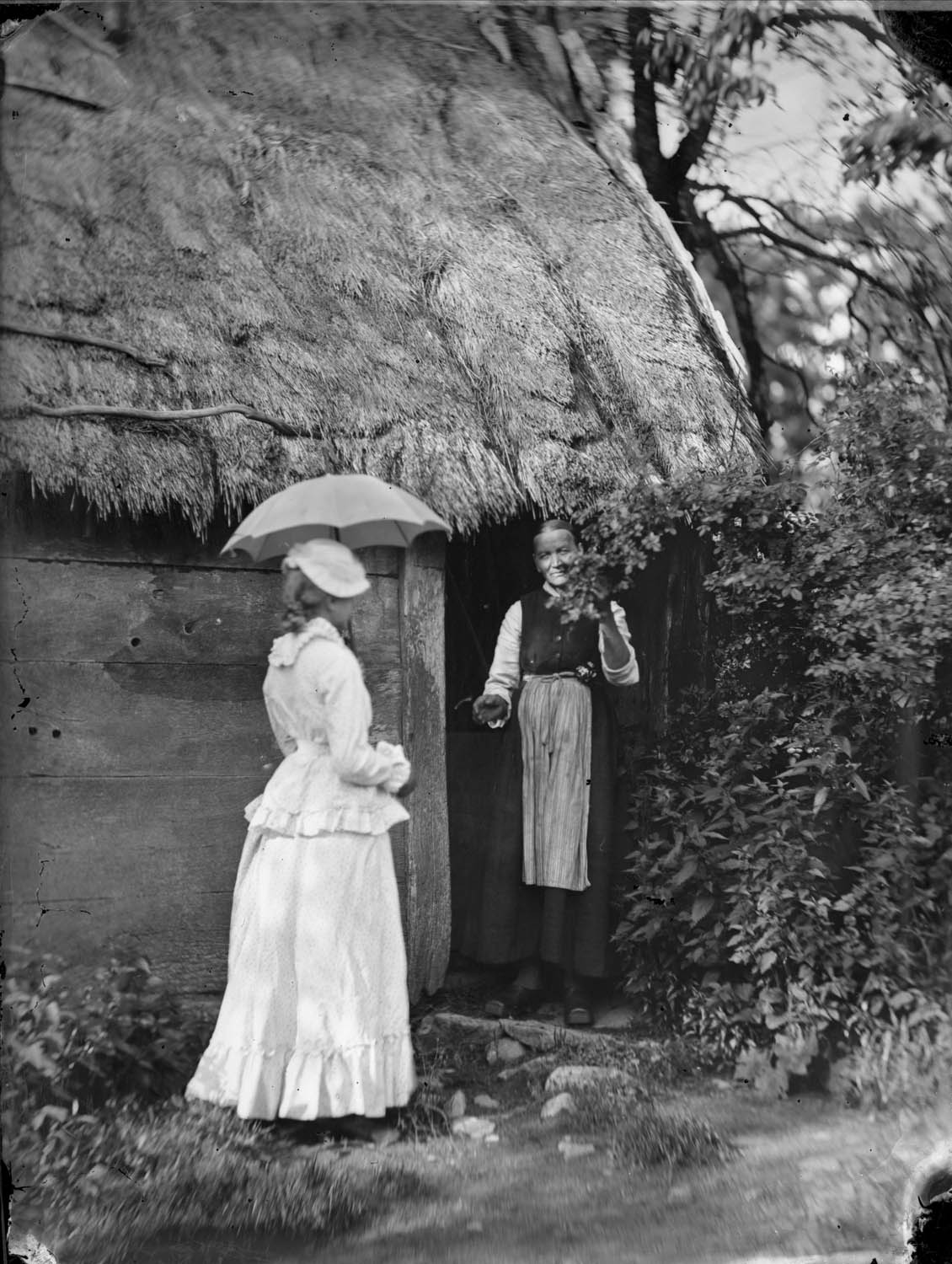 depicted place: Halland (Sverige (SE))